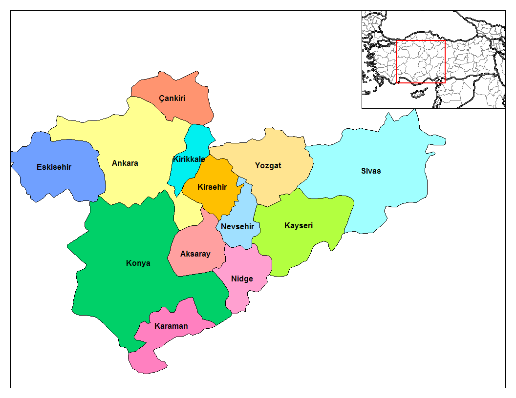 Map of the Central Anatolia Region of Turkey. Created by Rarelibra 17:14, 17 November 2006 (UTC) for public domain use, using MapInfo Professional v8.5 and various mapping resources.